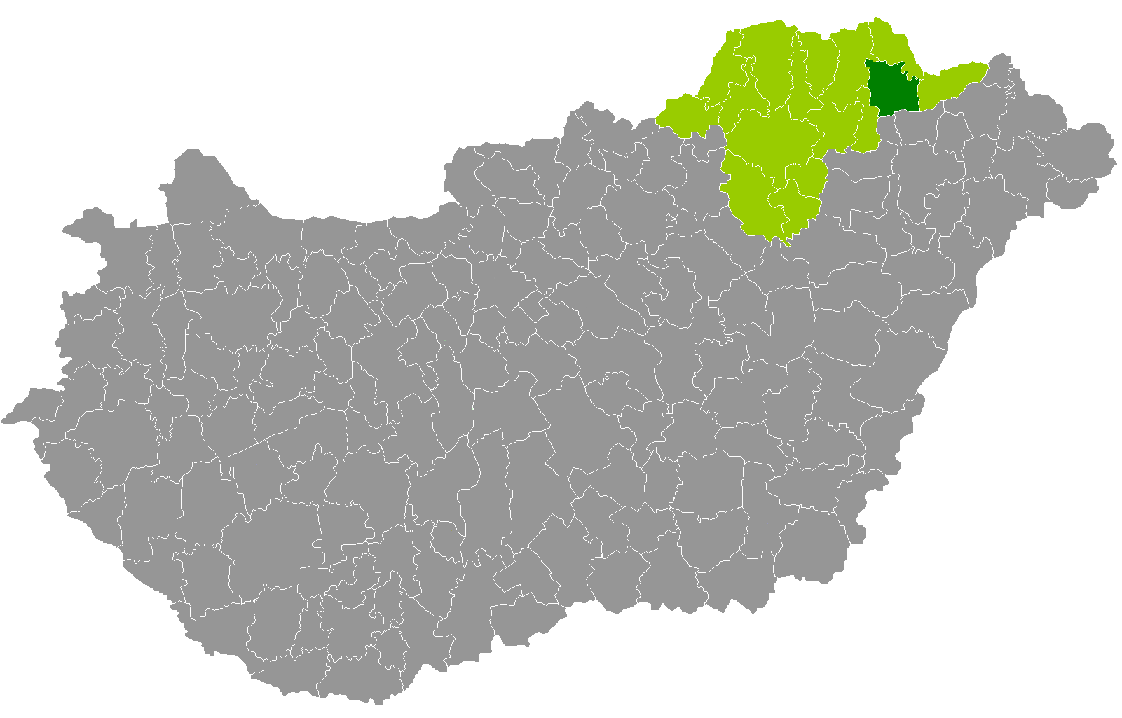 Location of Sárospatak District, Borsod-Abaúj-Zemplén, Hungary